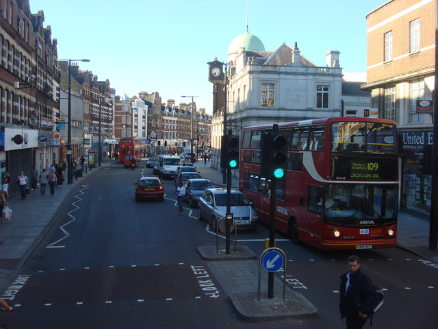 A23, Streatham High Road The building behind the bus with the green dome and the large clock is Streatham Public Library